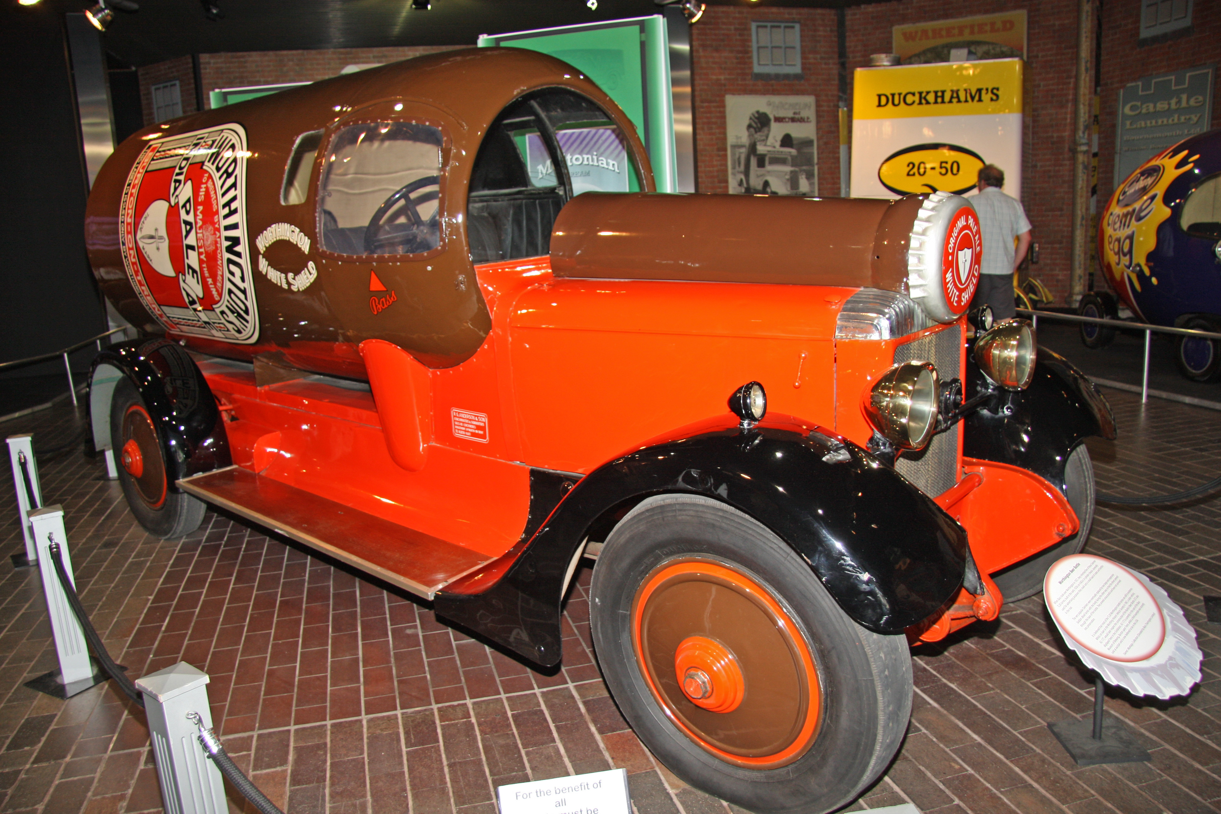 When Bass took over Worthington in 1927, they inherited five of these Daimler TL30 lorries, built in the early 1920s on 4,962cc 6-cylinder chassis. The very popular Daimlers were eventually replaced by two large and expensive Seddon diesel lorries with the body facing the other way so that the driver peered through the base of the bottle. They proved unsuccessful and have not survived into preservation.